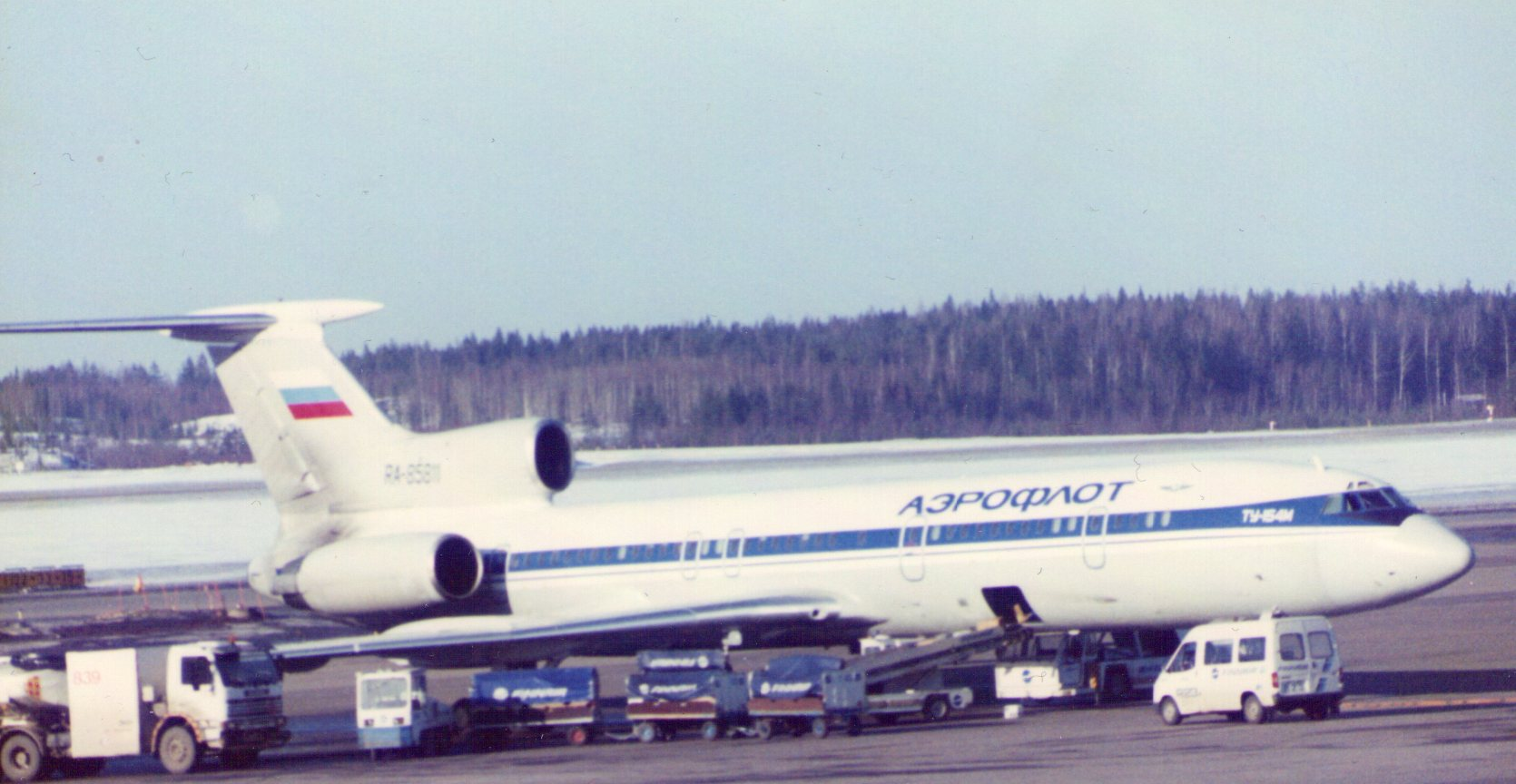 TU-154 loading at Helsinki Airport